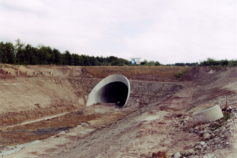 The north entrance to the Göggelsbuch-Tunnel under construction, Nuremberg-Ingolstadt high-speed railway line